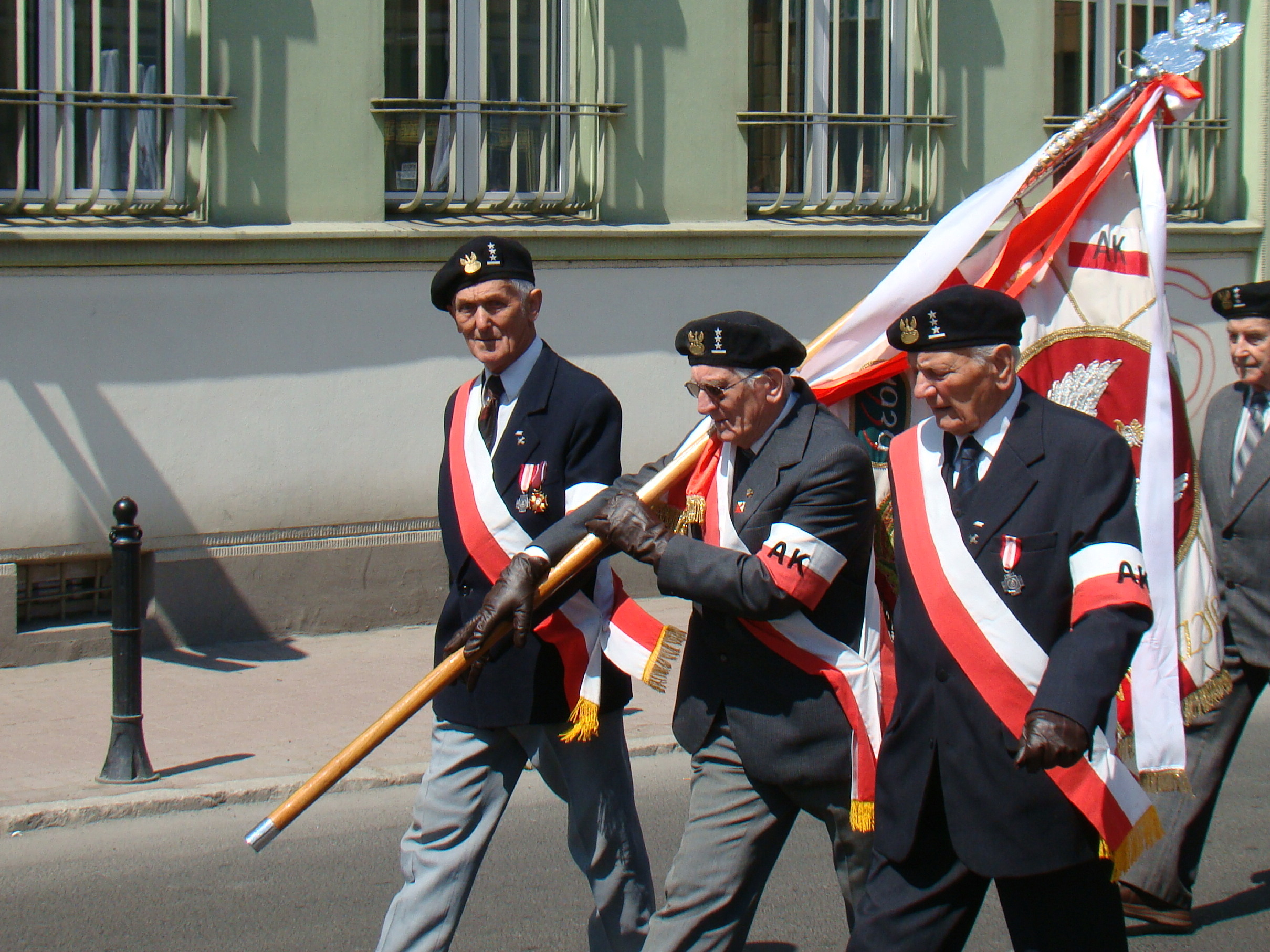 Aleksander Roman (in center). Sanok. 3 May 2009.